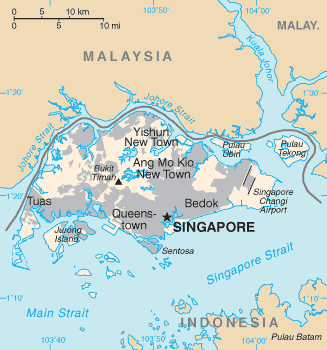 A map of Singapore from the CIA World Factbook with English labels.